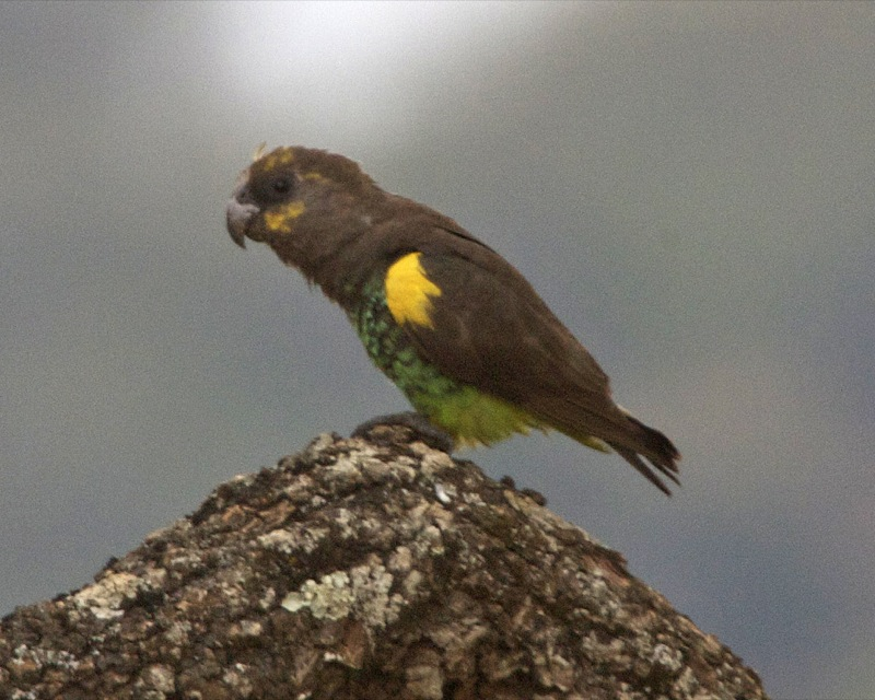 A Meyer's Parrot in Akagera National Park, Rwanda.